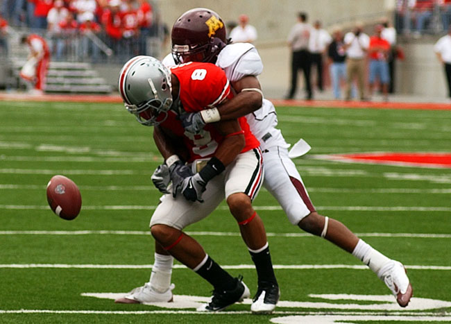 Ohio State free safety Aaron Grant catches a pass but drops the ball when tackled by Minnesota corner back Traye Simmons - making the pass incomplete - during the second half of Saturday's home game. The Buckeyes beat the Gophers 34-21.